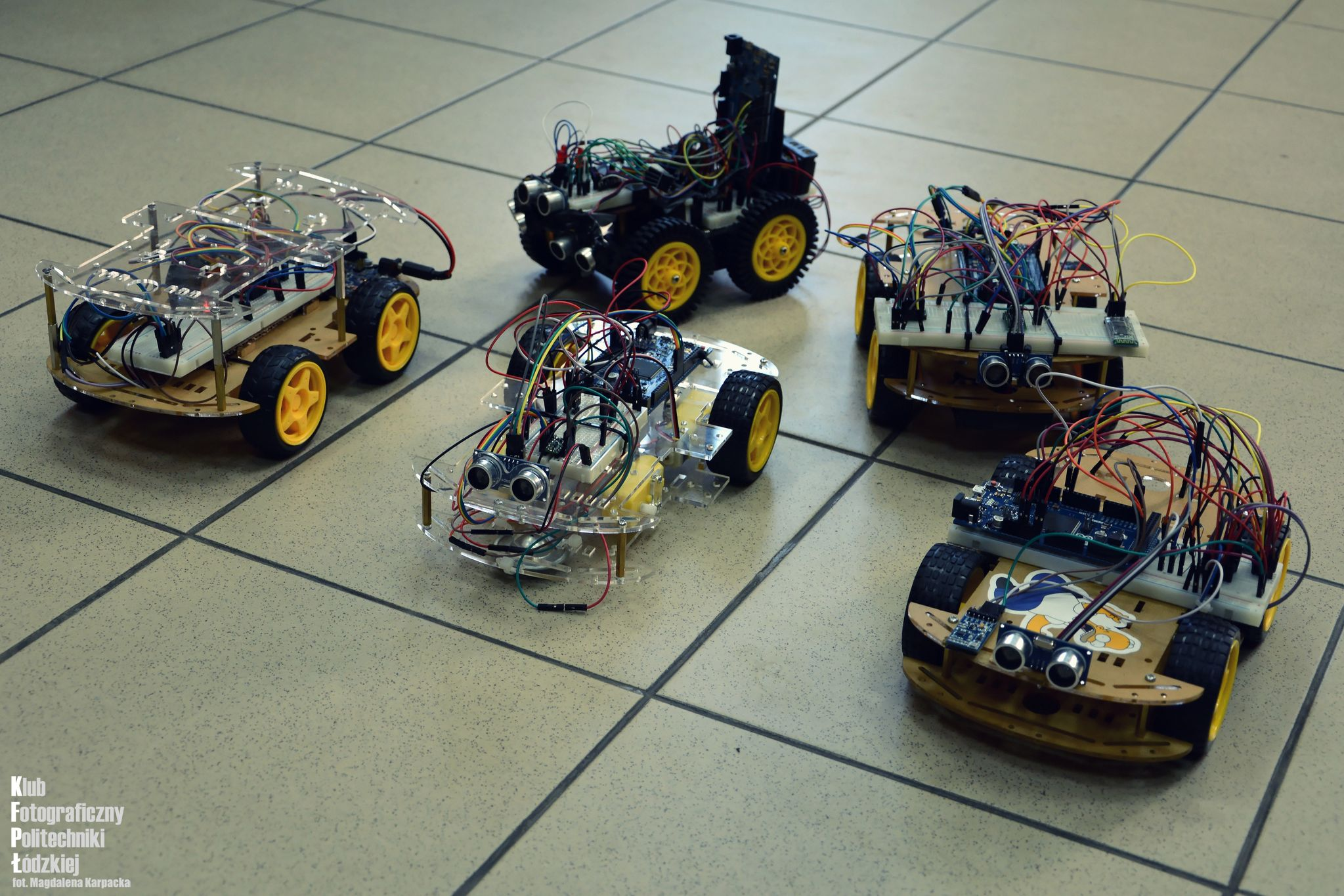 Mobile robots built by students